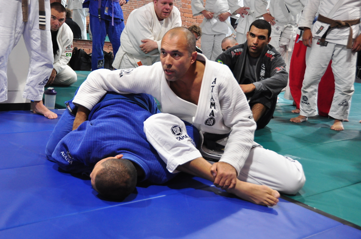 Royce Gracie demonstrating the omoplata at a 2011 seminar.